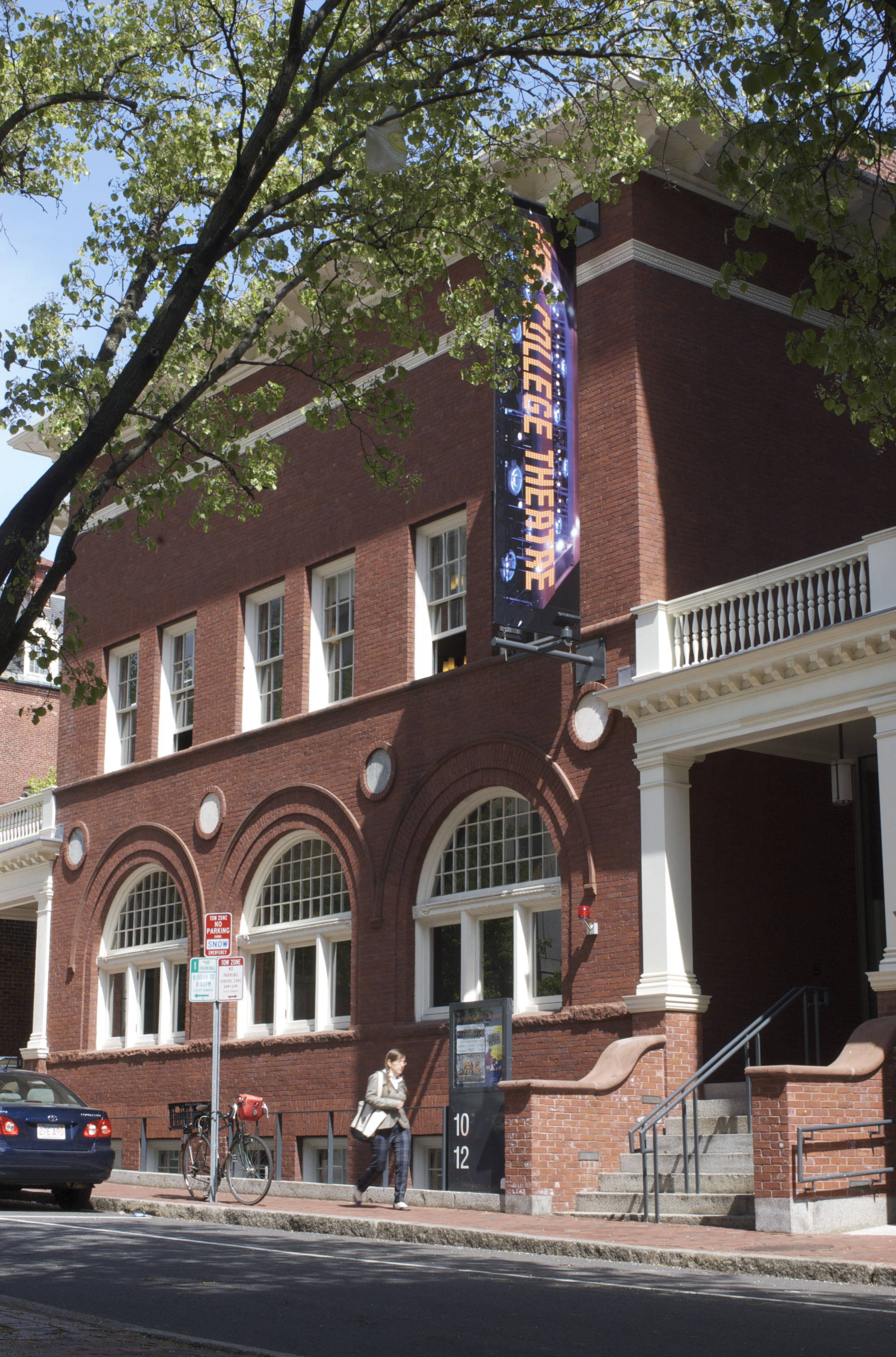 The Hasty Pudding Club at 12 Holyoke Street, Cambridge, Massachusetts.